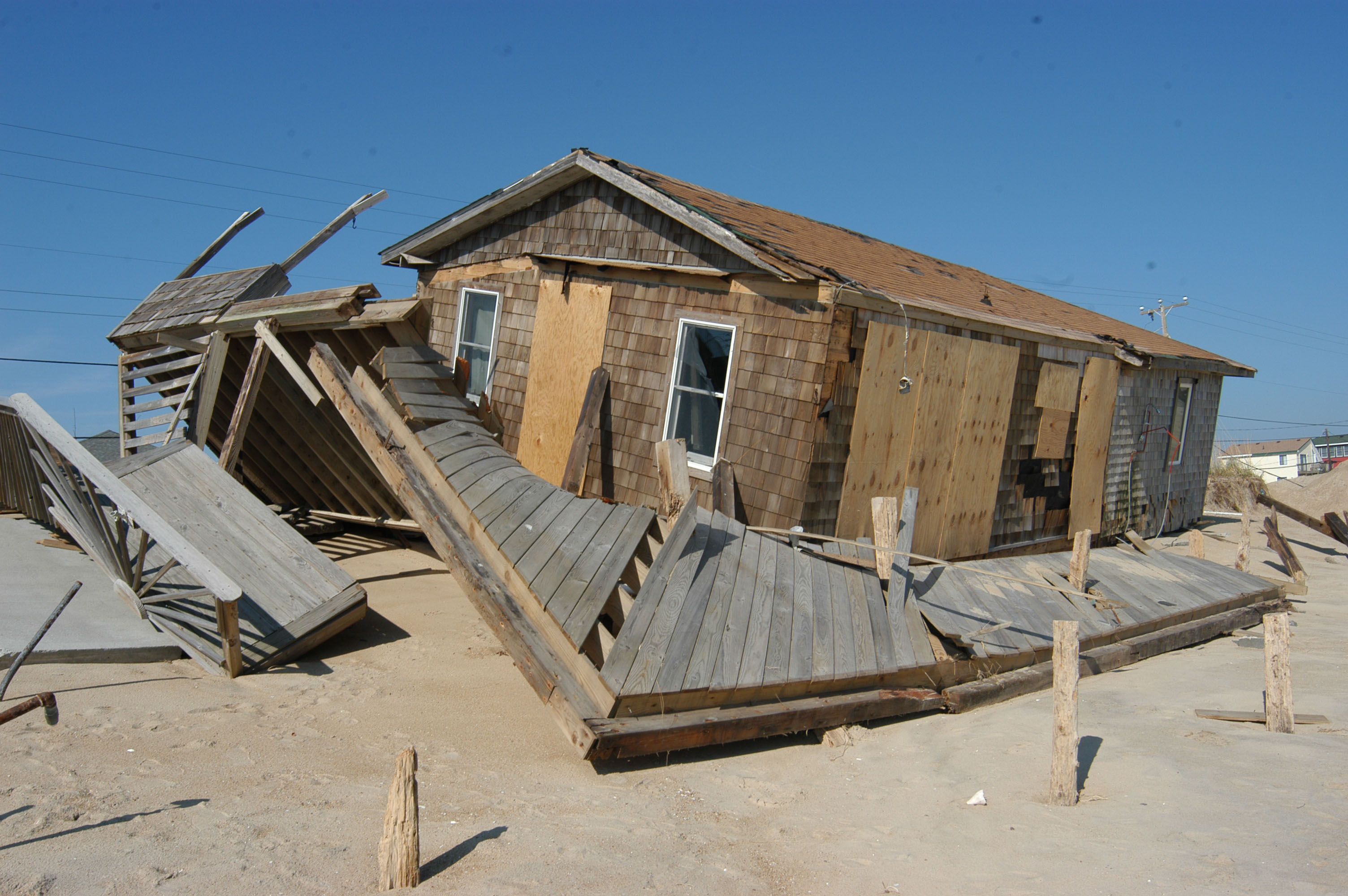 A house destroyed by Hurricane Isabel in Kitty Hawk, North Carolina